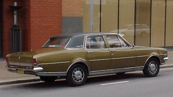 1968–1969 Holden HK Brougham sedan, photographed in Australia.